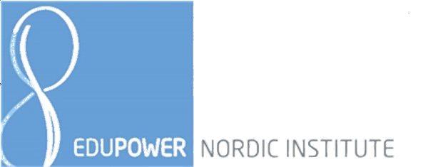 Logo and slogan of ENI